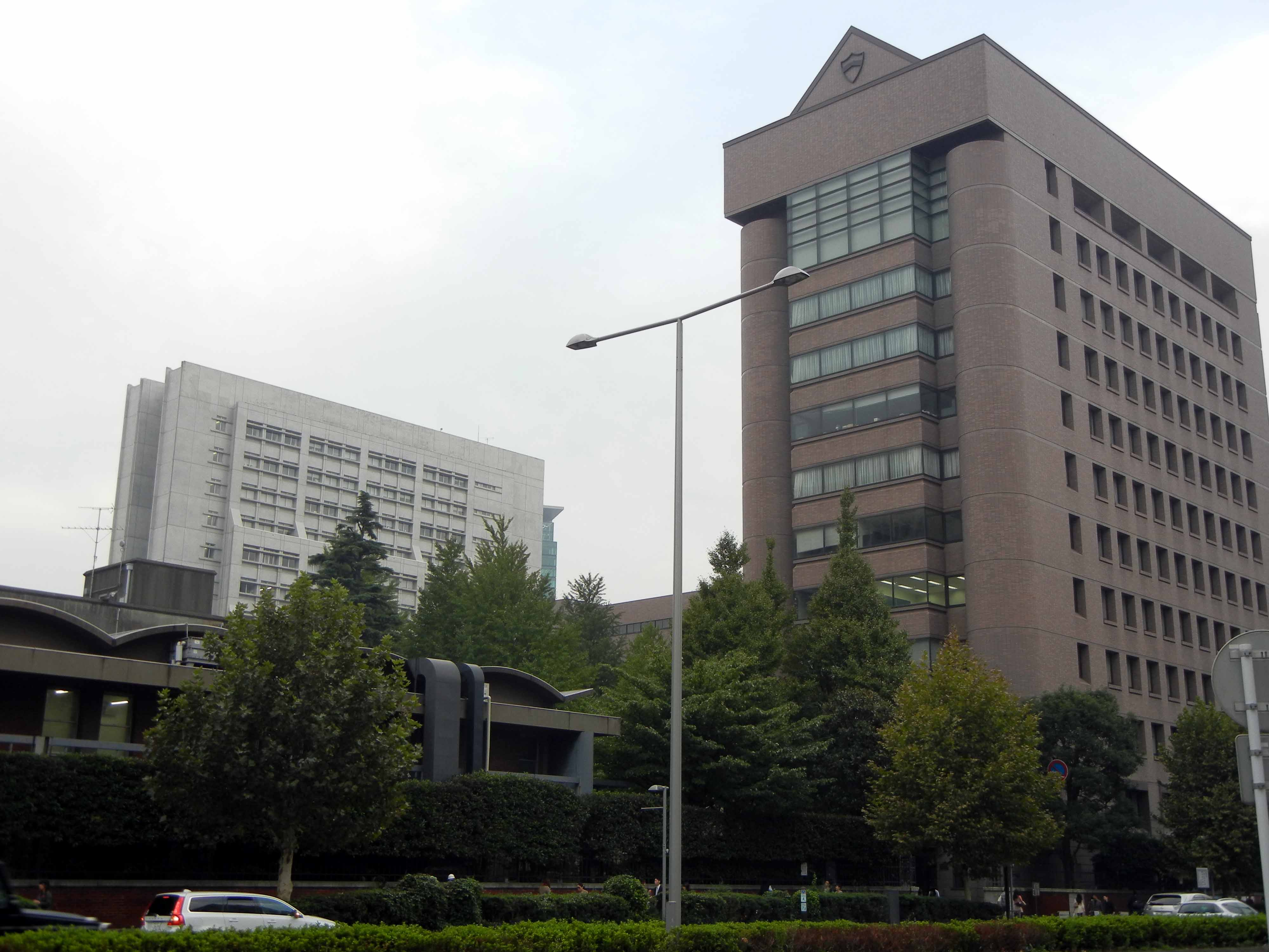 Aoyama Gakuin University Aoyama Campus